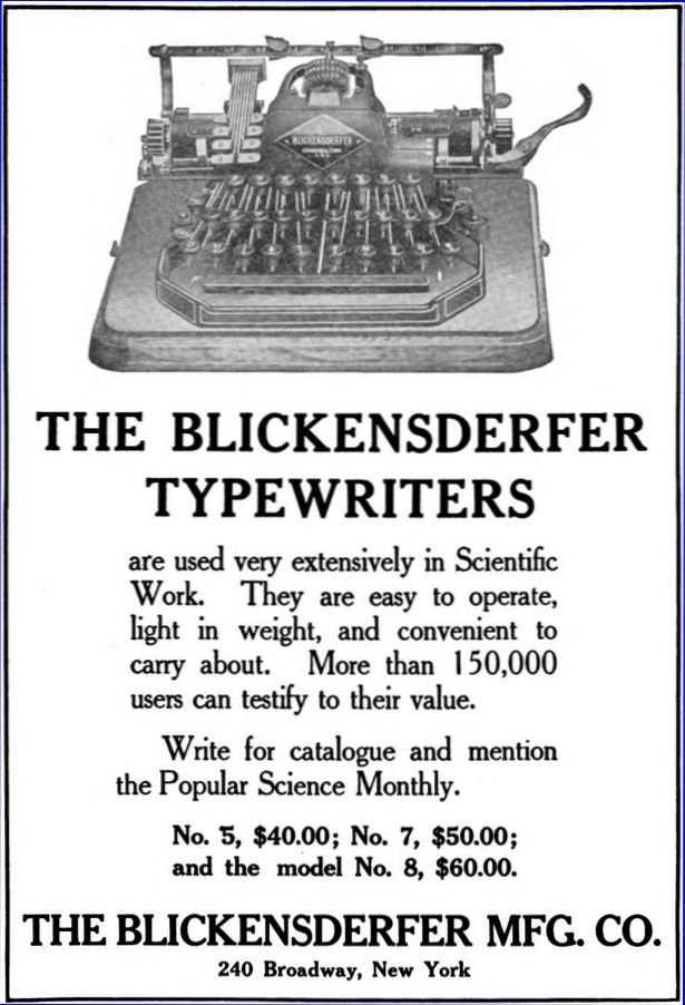 Blickensderfer scientific typewriter advertisement, 1909